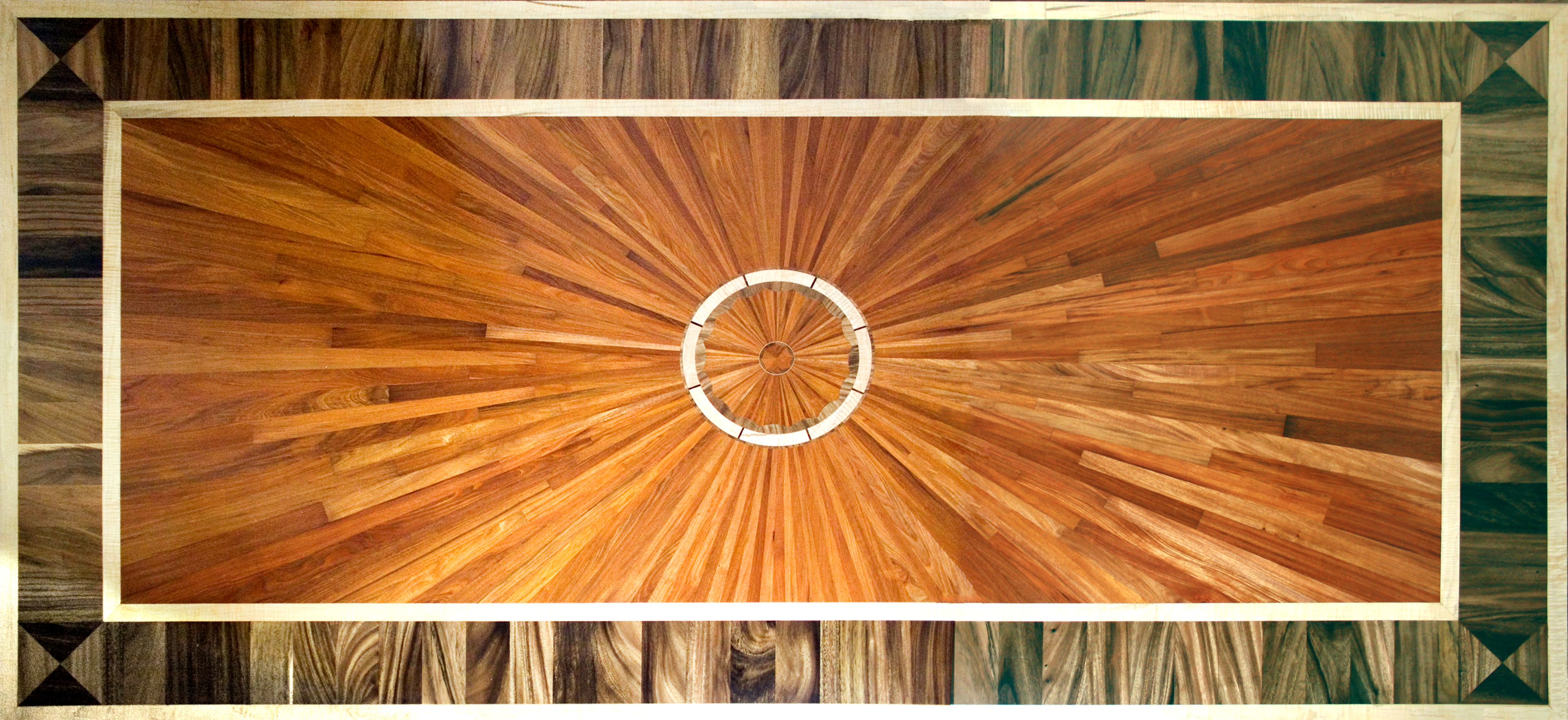 Parquet flooring in entrance hall. Stitched from two images.